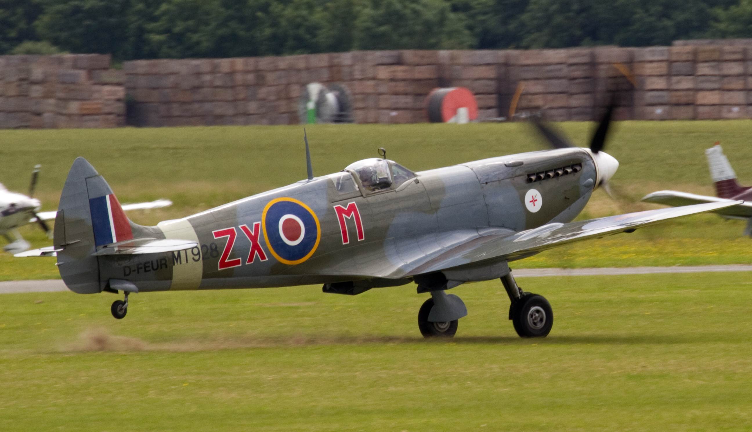 Spitfire HFVIIIc MT928